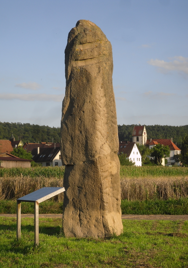 standing stone of Weilheim ("Weilheimer Menhir"), in the background the Nikomedes church, Weilheim near Tübingen